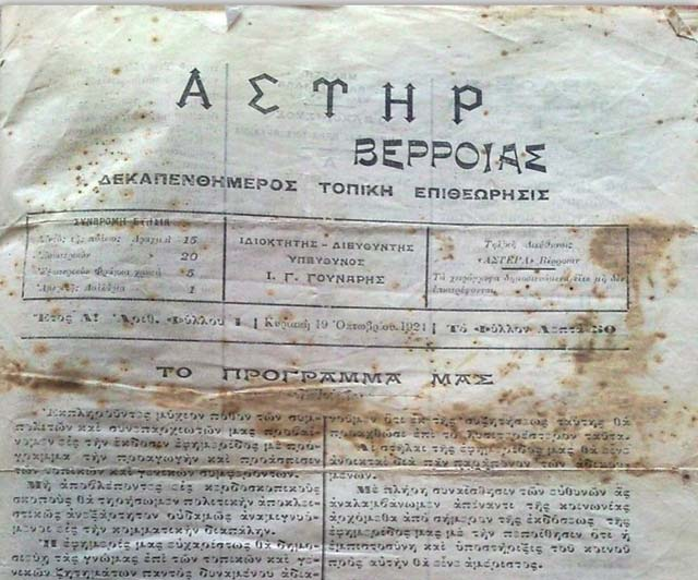 Astir Verroias newspaper, N1